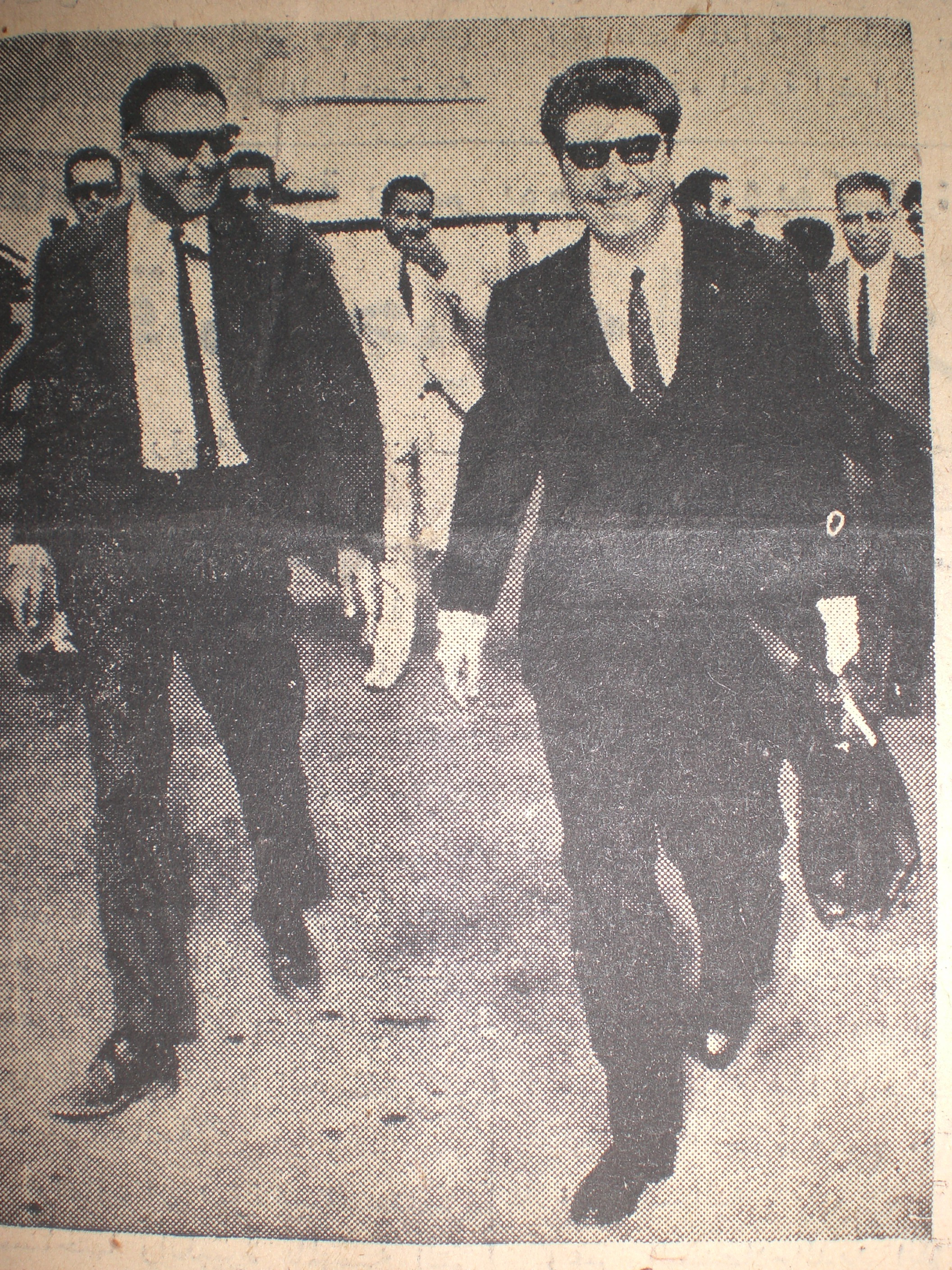 The photo of Ahmed Ben Salah after his visit to France, september 1968